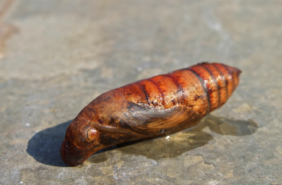 Theretra alecto pupae - גולם רפרף הגפן